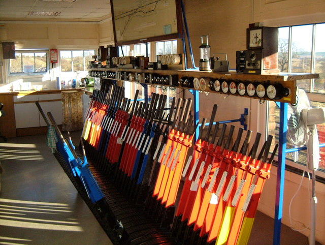 Inside Yeovil Junction Signal Box